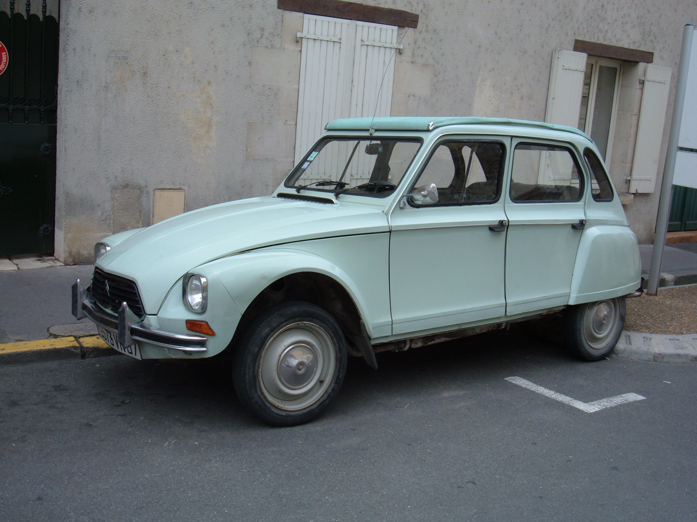 A Citroën Dyane 6 in Saumur, France.